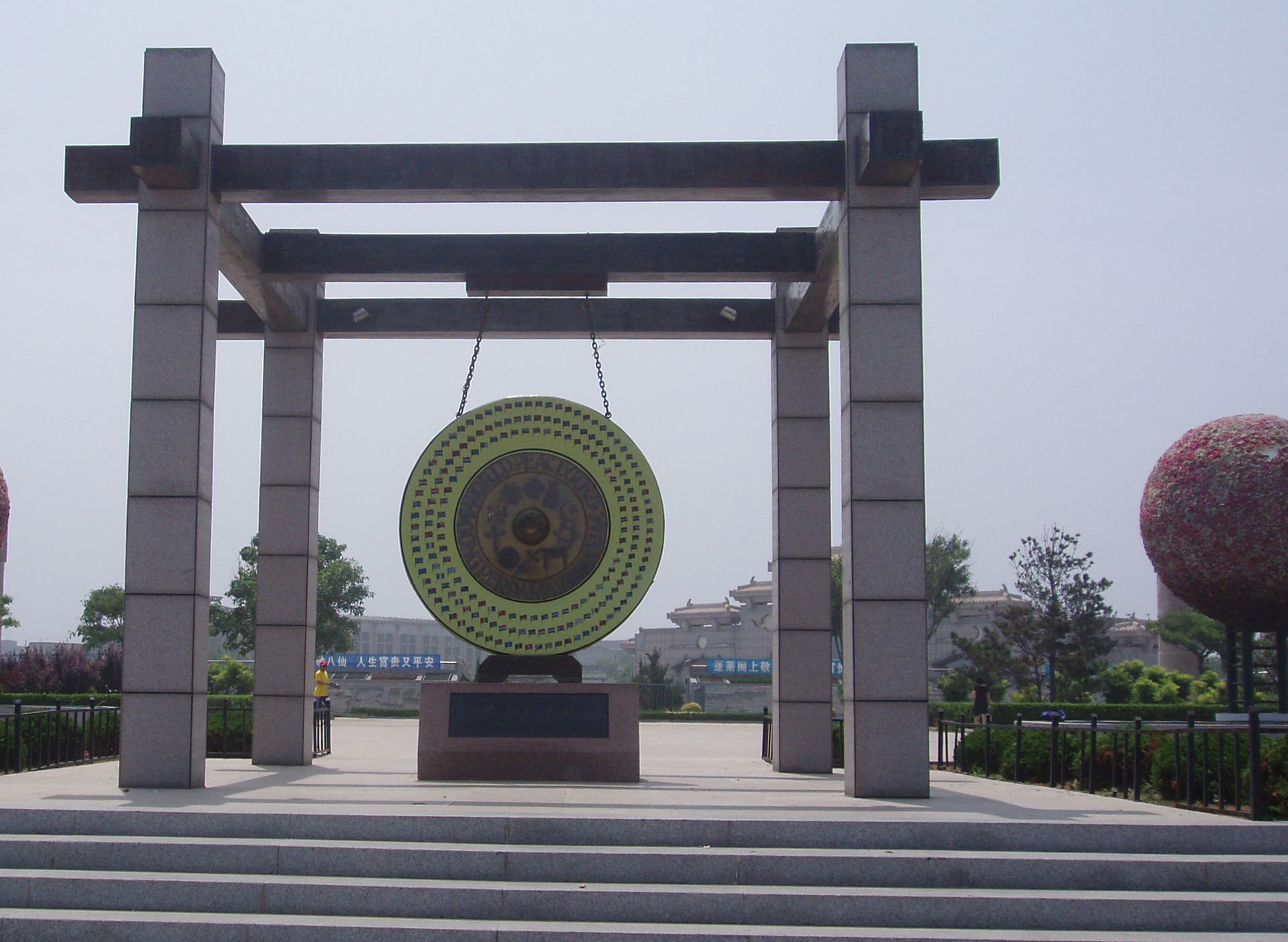 Statue in Penglai, Shandong, China